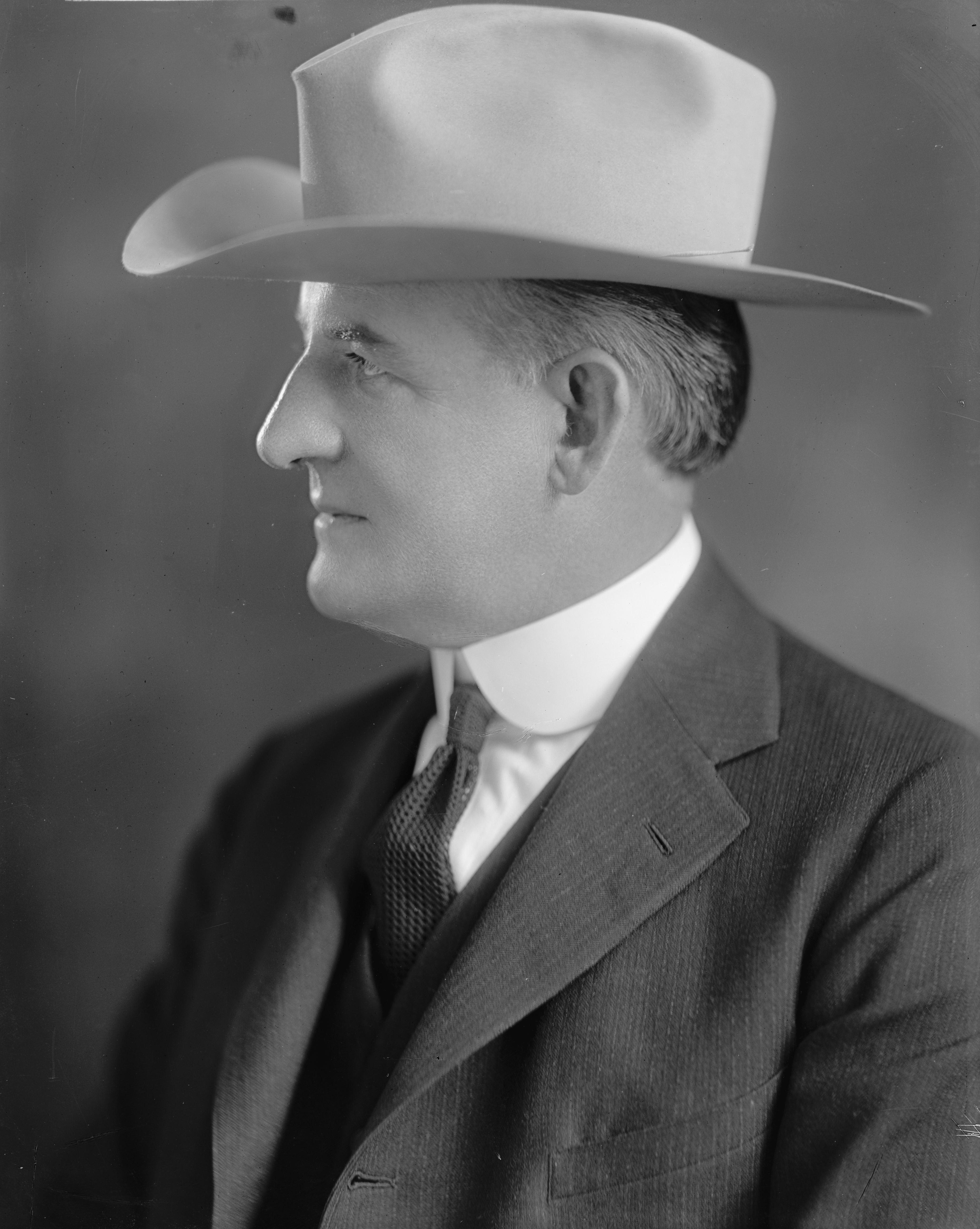 Thomas Edwin Campbell, Second Governor of Arizona